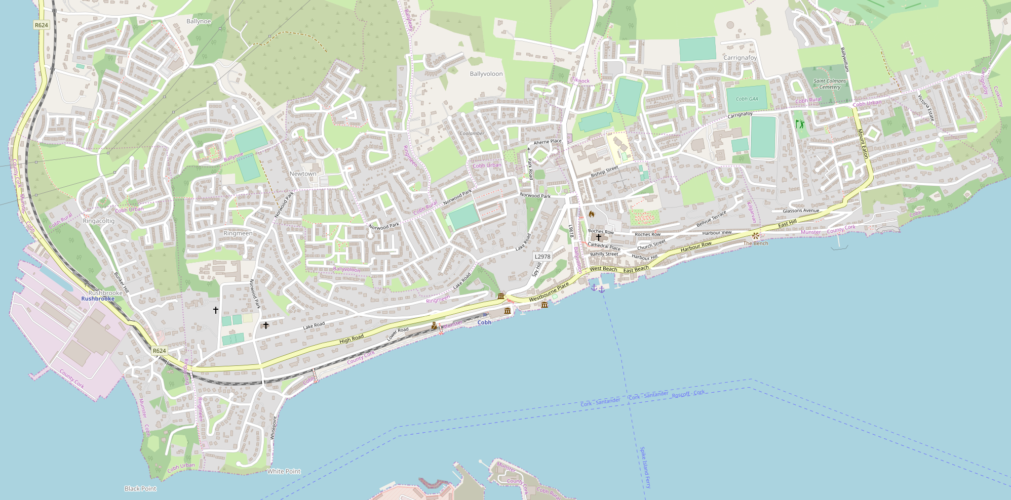 openstreetmap map of Cobh, county Cork, Ireland